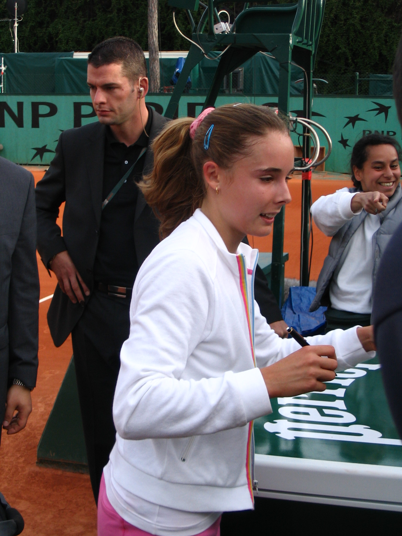 Alizé Cornet, Roland Garros 2005